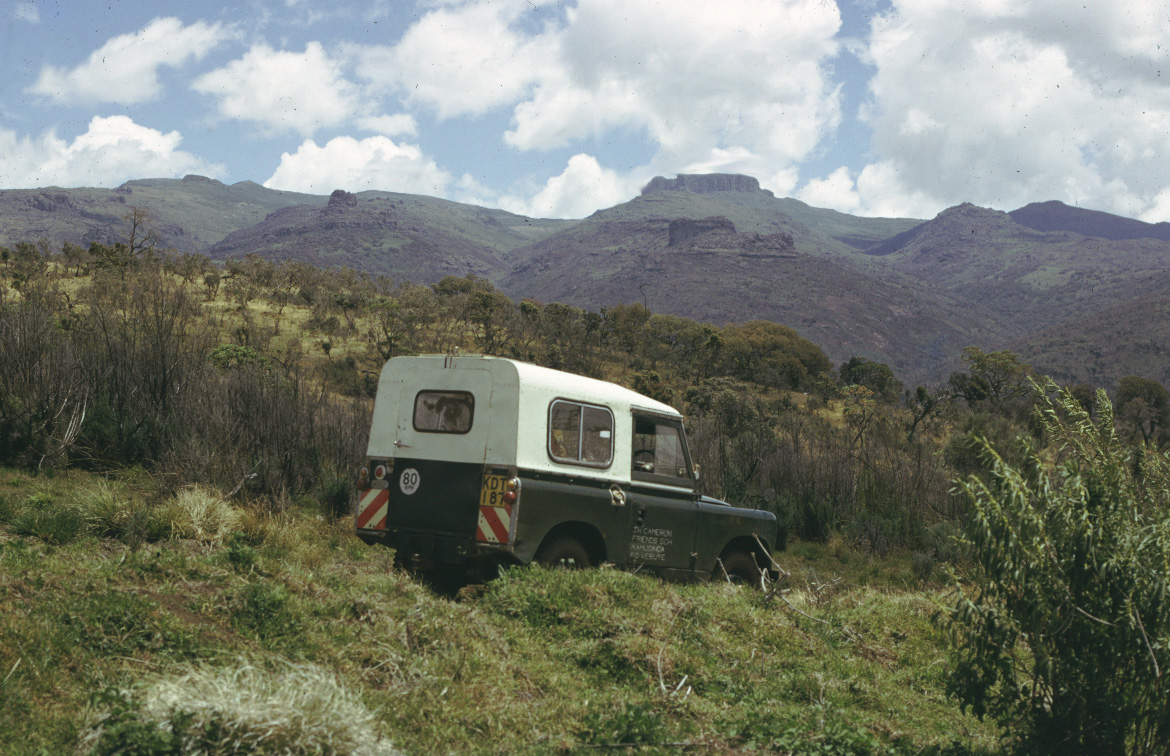 Koitoboss and the moorland above The Mount Elgon National Park